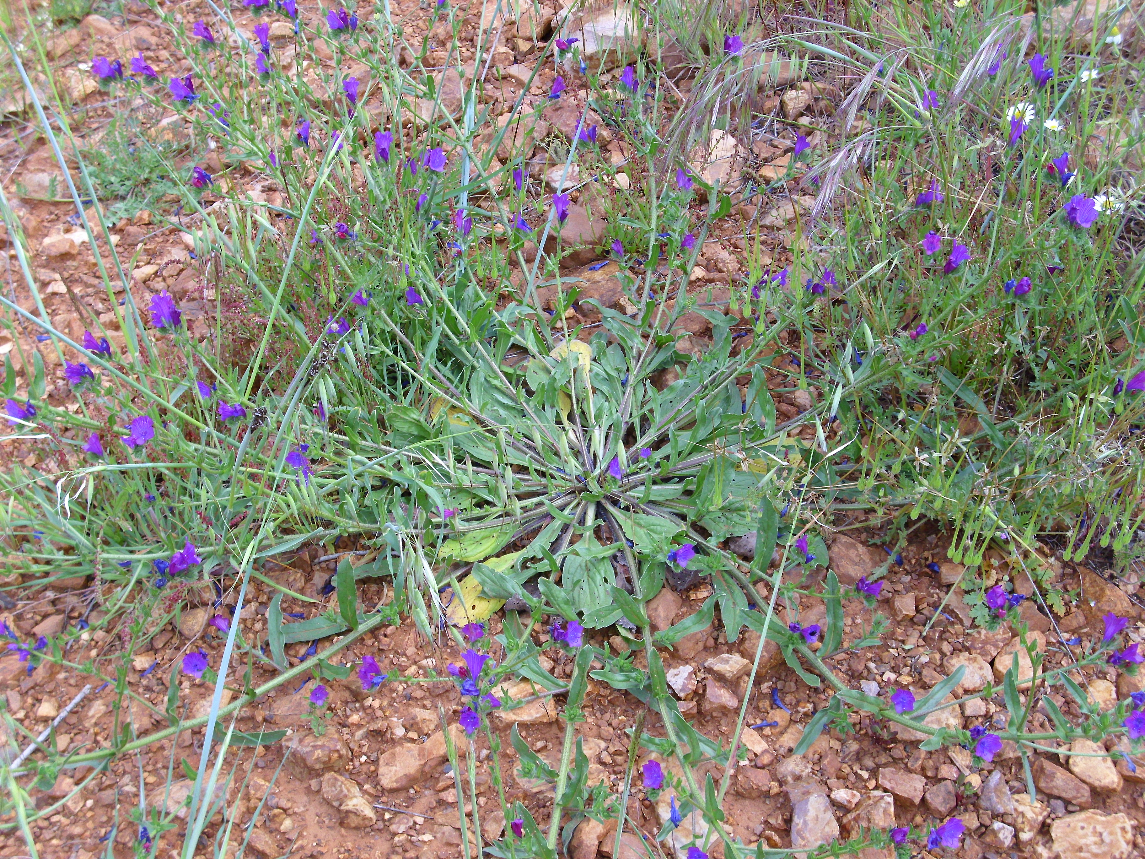 Echium creticum habit Campo de Calatrava, Spain